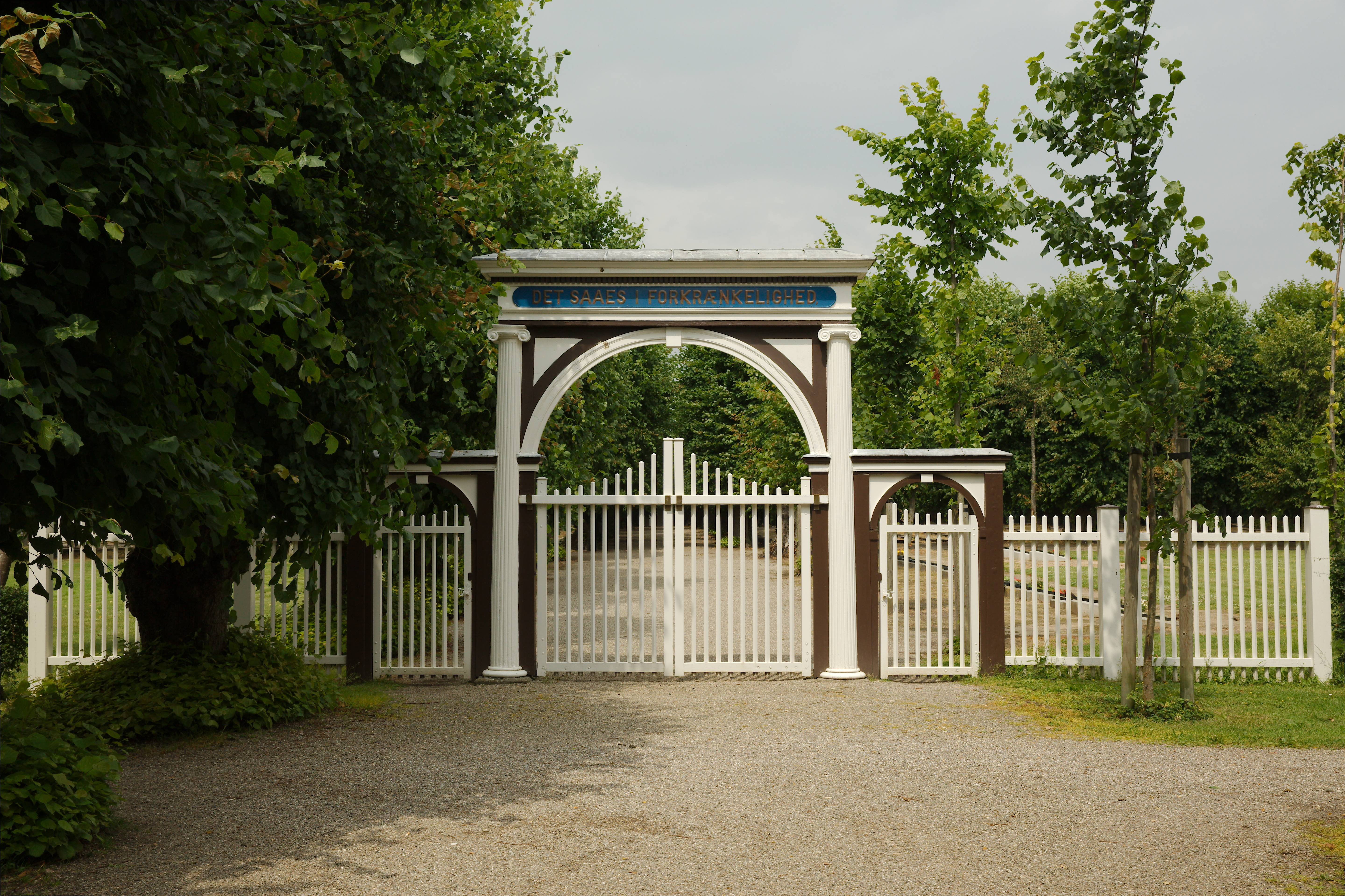 Entrance to God's Acre, Christiansfeld, Denmark